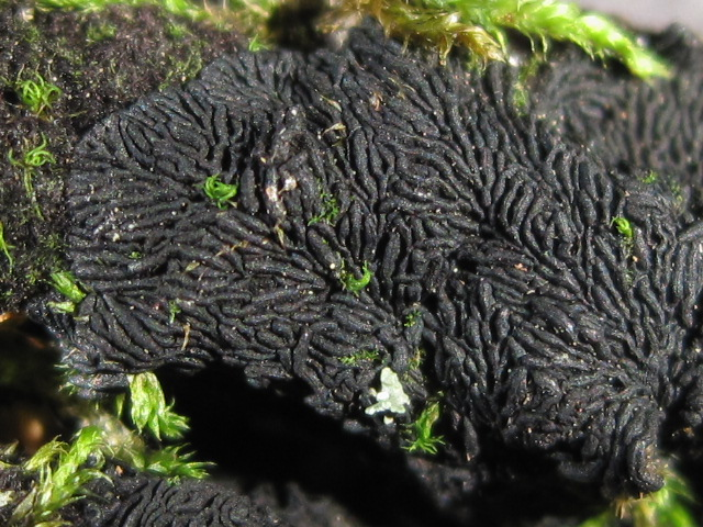 Glonium stellatum Image location: Blackstone, Massachusetts, USA This fungus starts off a small roundish patches of radiating carbonaceous hysteriothecia on a coarsely woolly black subiculum. The fruiting bodies grow and extend over a larger area, becoming confluent and creating crustlike patches many centimeters in extent. I saw a rotten old one on an oak log that was more than ten cm in length. I’ve found it two times now and both were on rotted oak. Used references: Eric Boehm’s hysteriothecial fungi website Based on microscopic features: Bitunicate asci. 8-spored, cylindrical with shortish stipe. Mine average a little larger than what’s listed in the descriptions but who’s counting microns? What!? Ascospores average 26.5 × 7 micrometers. Hyaline. For more information about this, see the observation page at Mushroom Observer.